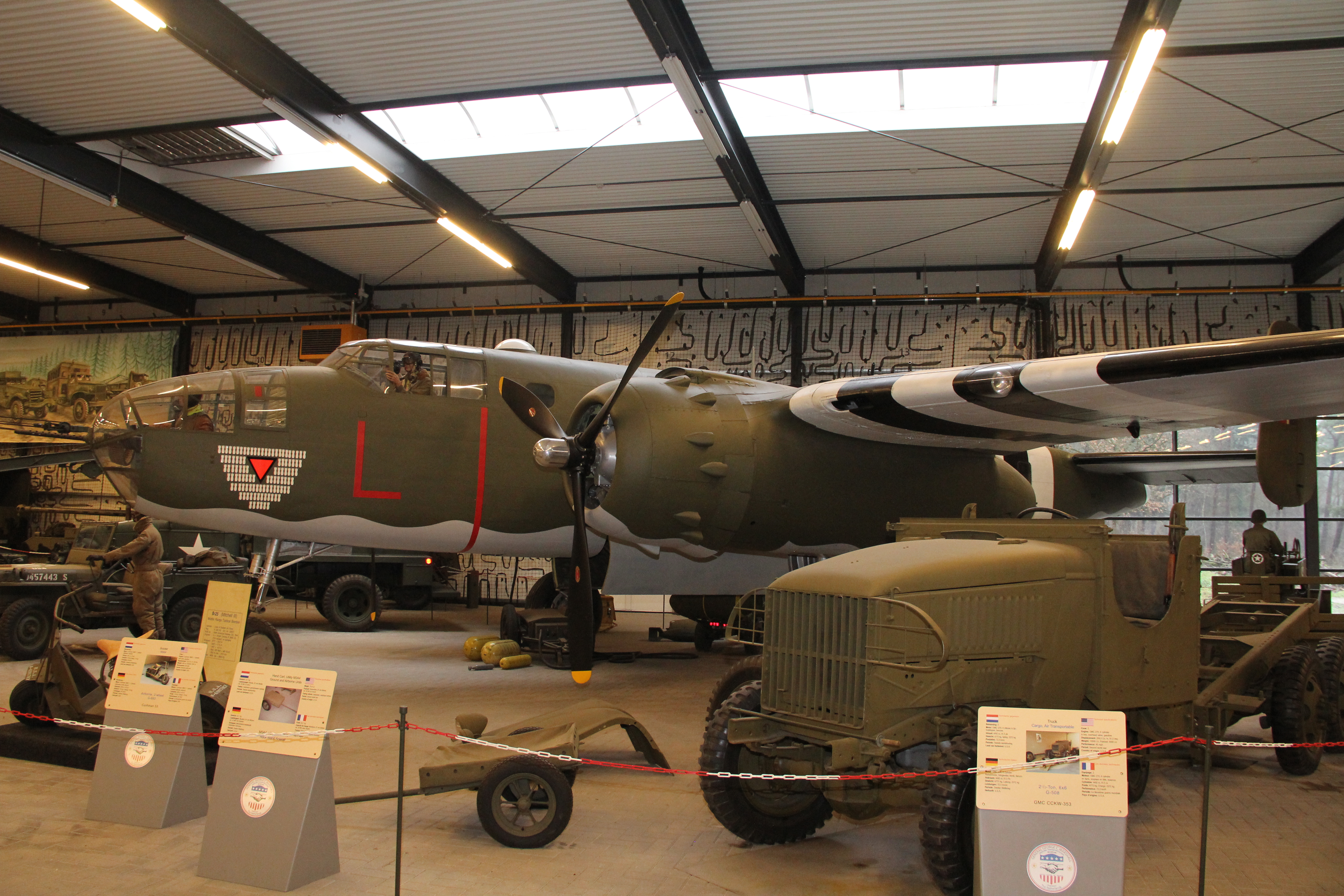 North American B-25 Mitchell